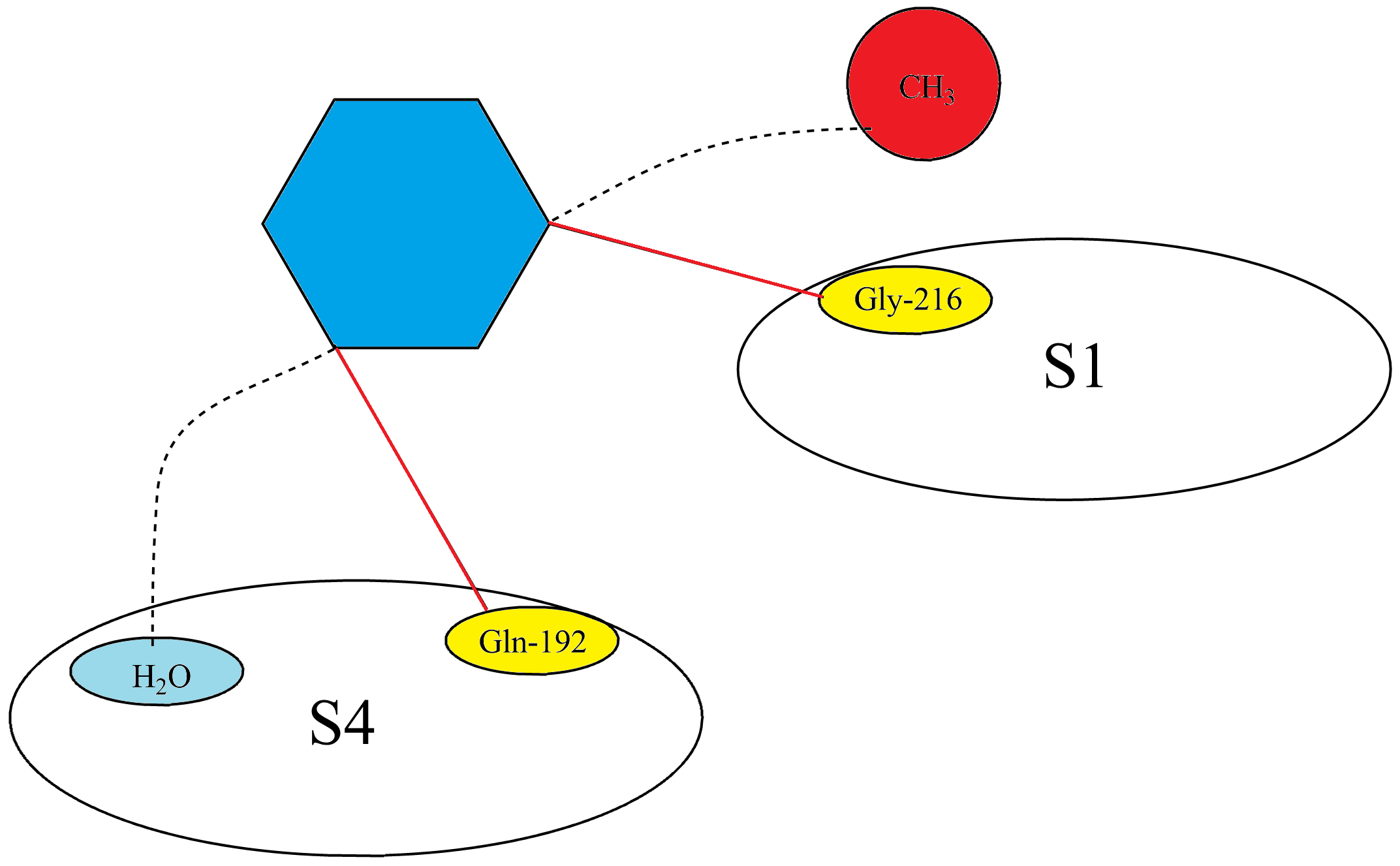 Abixaban binding pockets depicted with S1 and S4